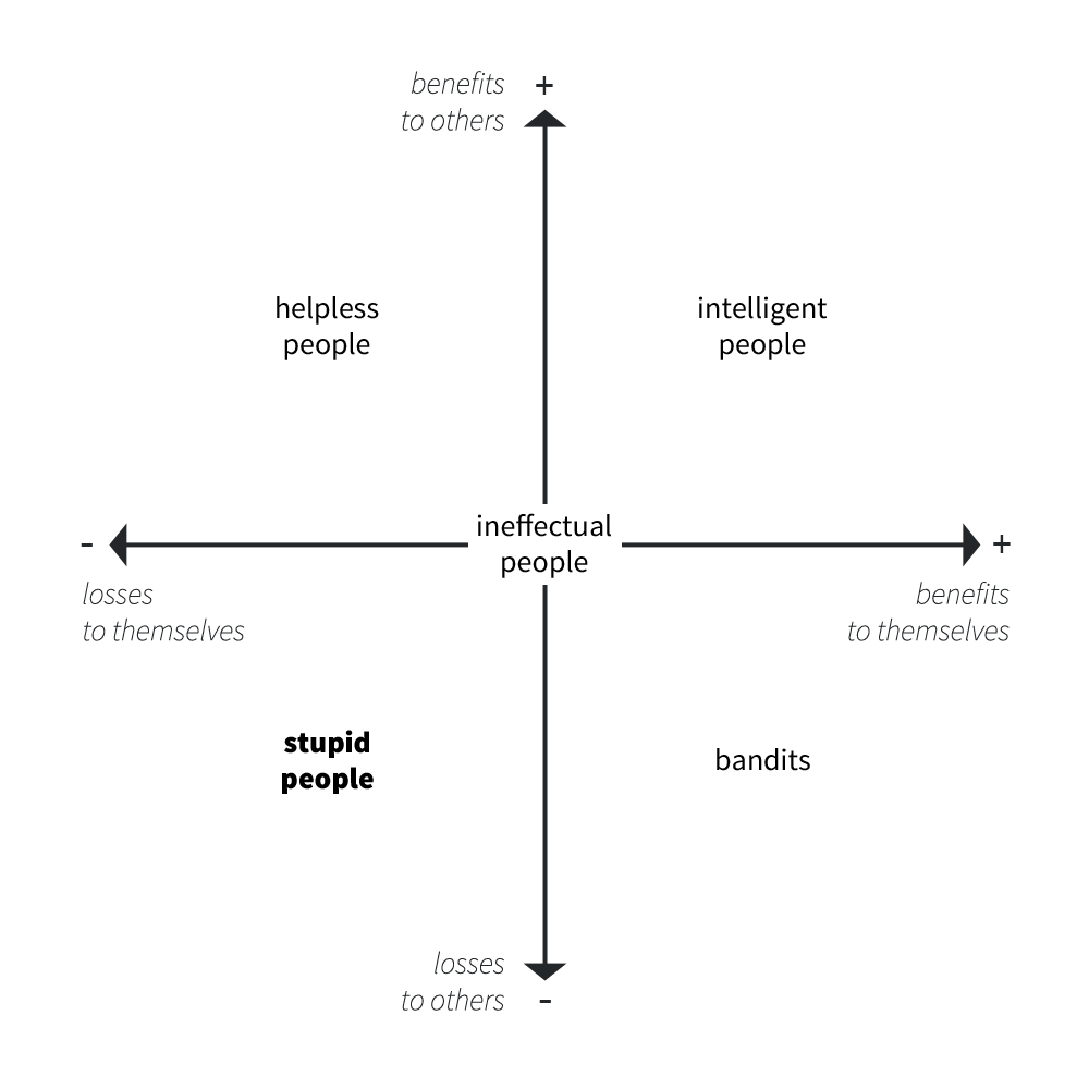 Graph with the benefits and losses that an individual causes to him or herself and causes to others. According to Carlo M. Cipolla